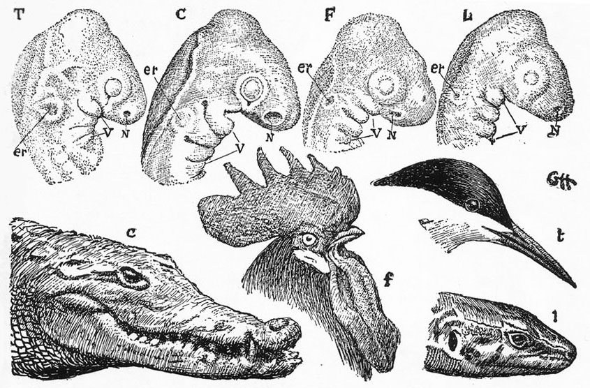 Gerhard Heilmann's comparative illustrations of the embryos and adult life drawings of a crocodile (C), common fowl (F), lizard (L) and tern (T).